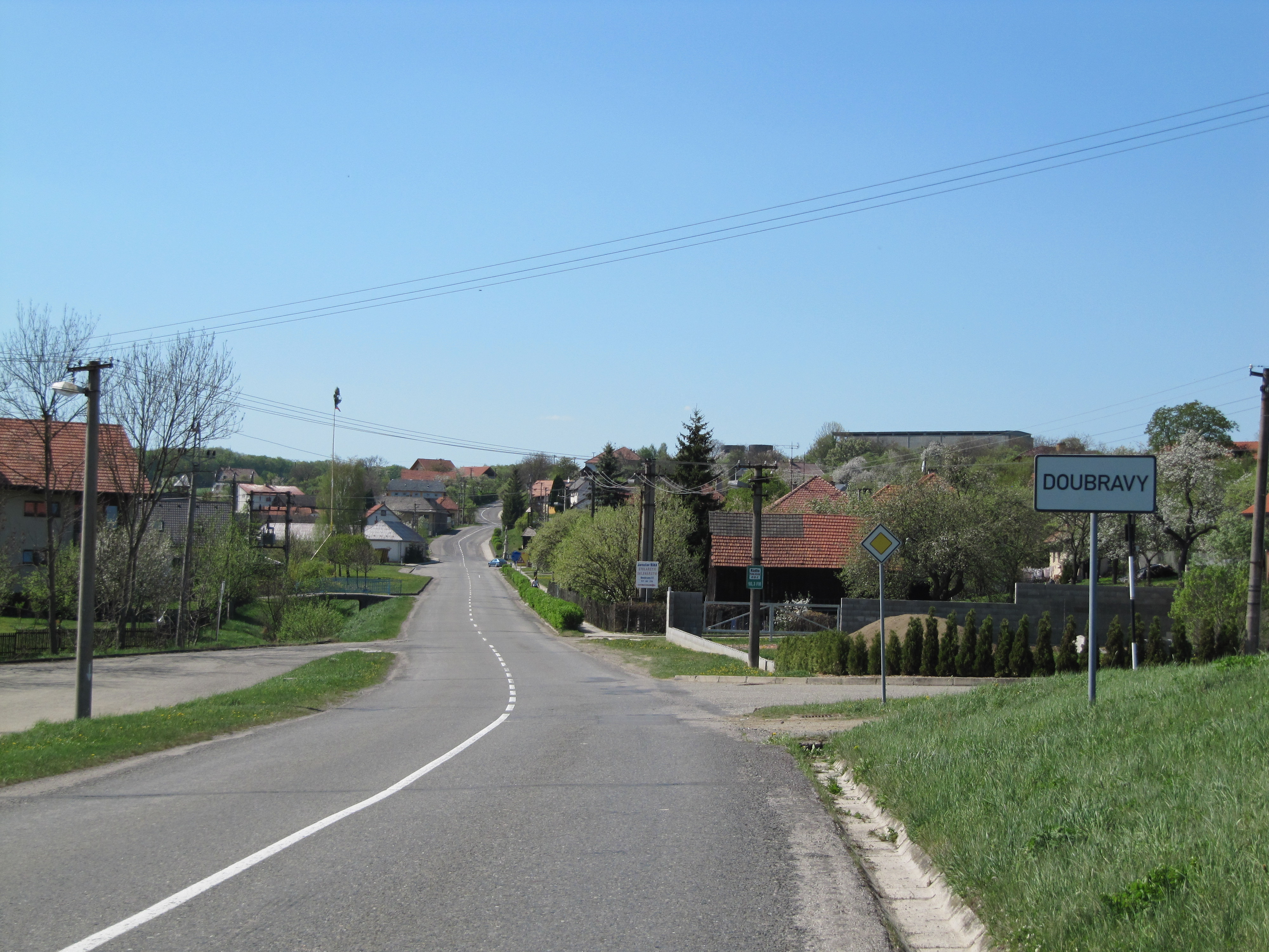 Doubravy in Zlín District, Czech Republic. Arrival to the village from Biskupice.